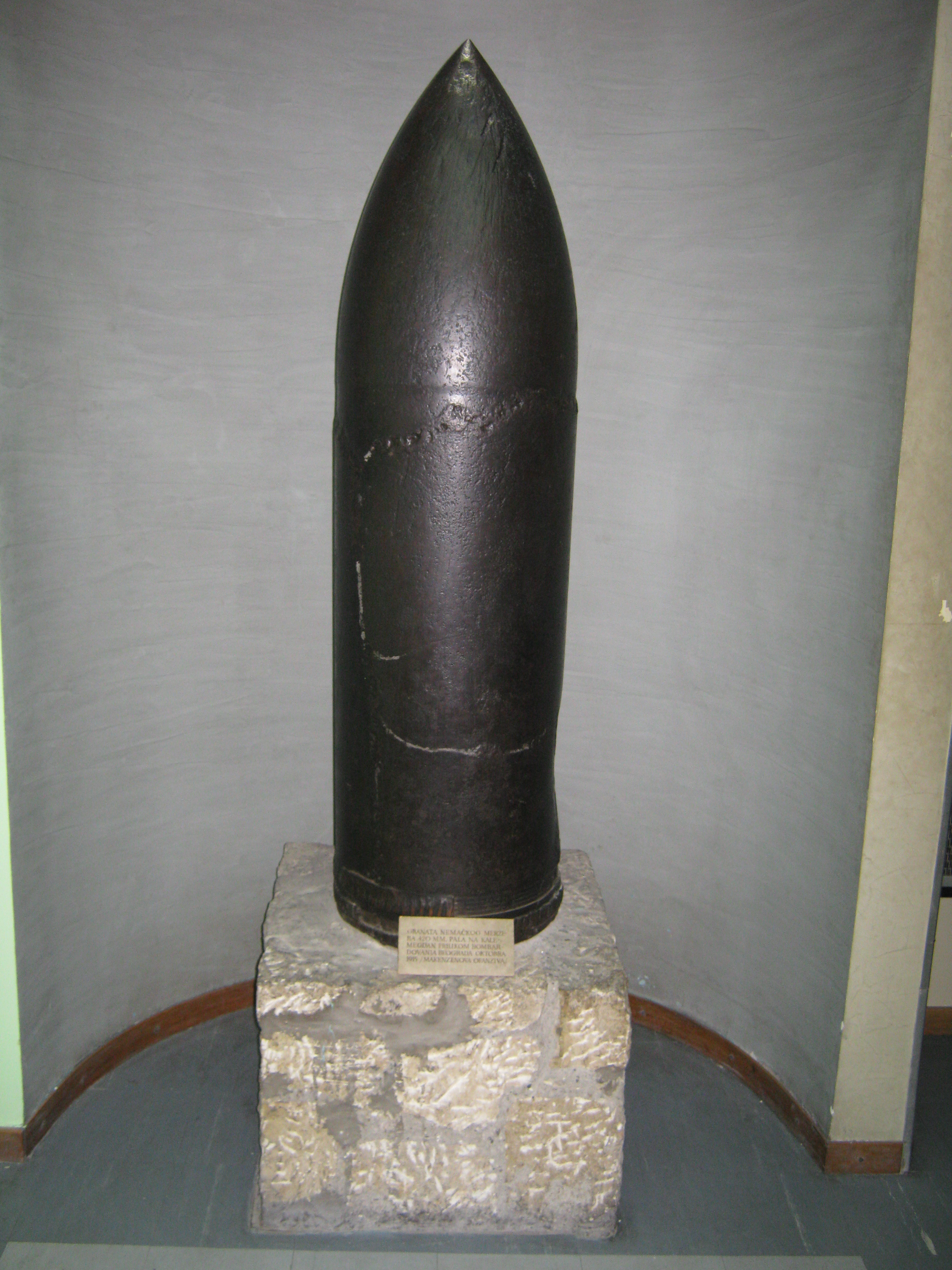 German mortar shell. 420 M.M. Fell on the Kalemegdan Fortress in the bombing of Belgrade October 1915. (Mackensen's offensive)